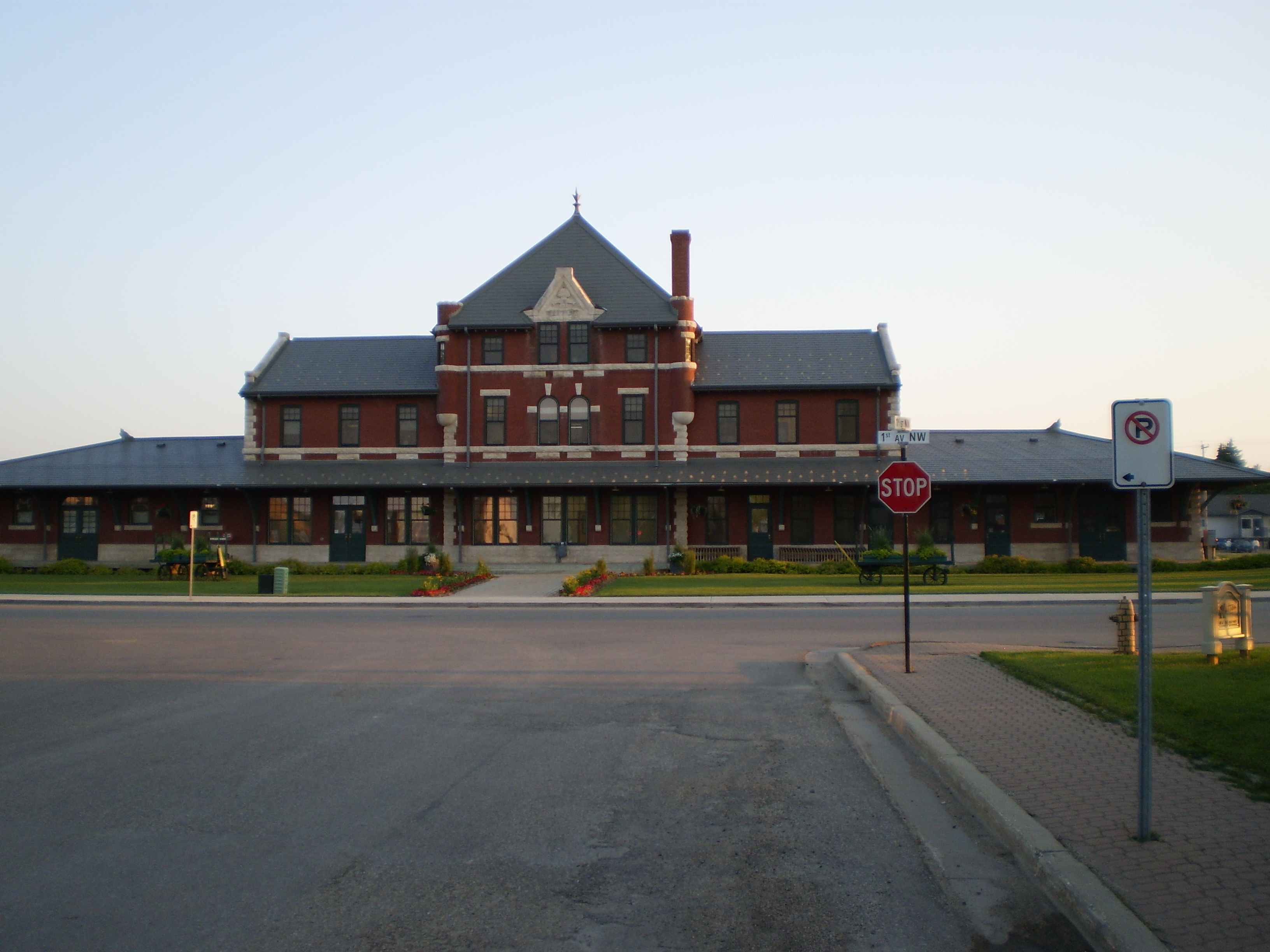 Dauphin train station, 101 First Ave. N. Dauphin, MB, R7N 1G8, CanadaSrpski (latinica): Železnička stanica u Dofenu, Manitoba, Kanada. Pogled iz glavne gradske ulice.